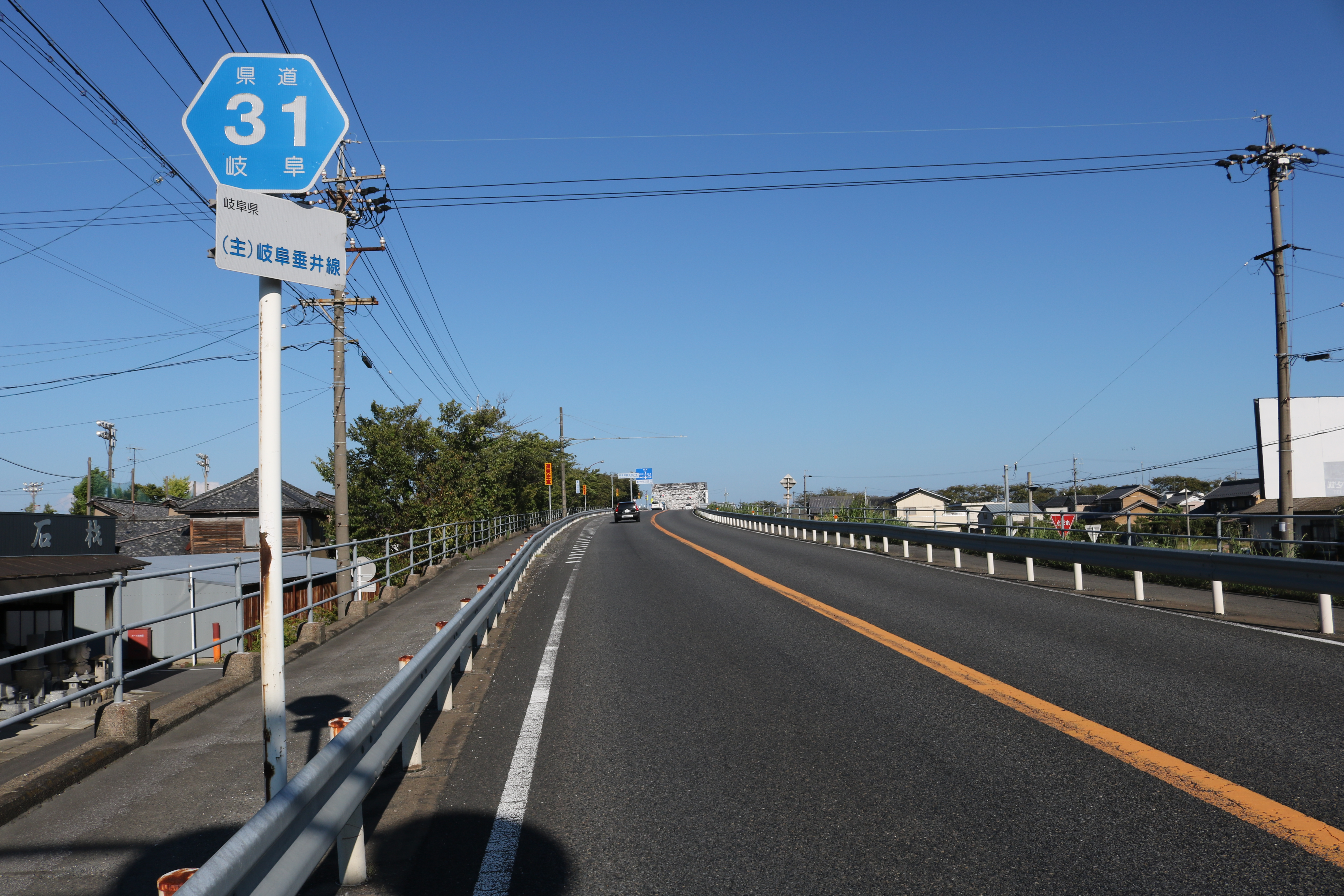 Gifu Prefectural Road Route 31 and Nagara Bridge over Nagara River in Sunomata, Sunomatacho, Ogaki, Gifu Prefecture, Japan.